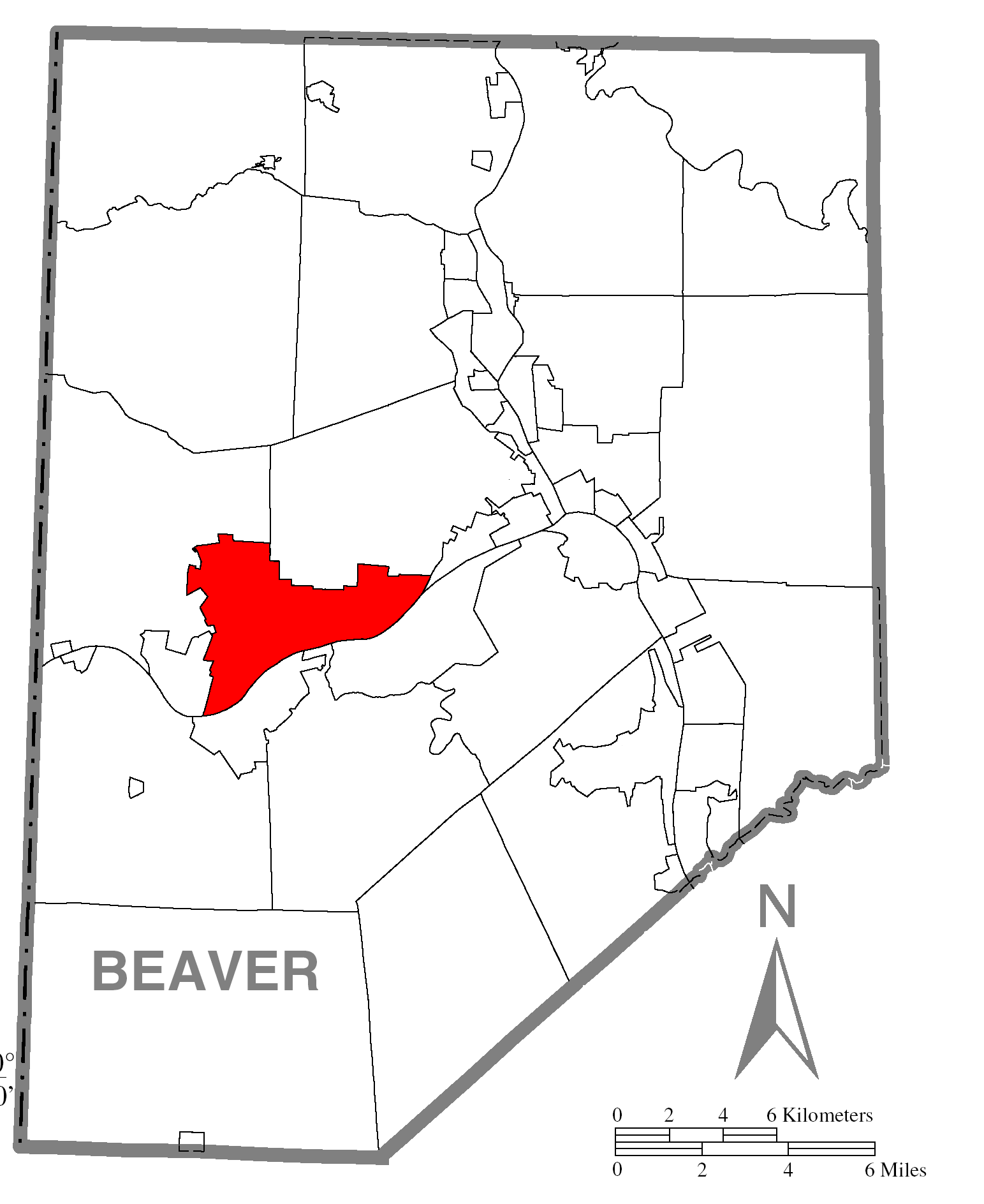 A map of Beaver County showing Industry, Pennsylvania (alternate) highlighted on the map.